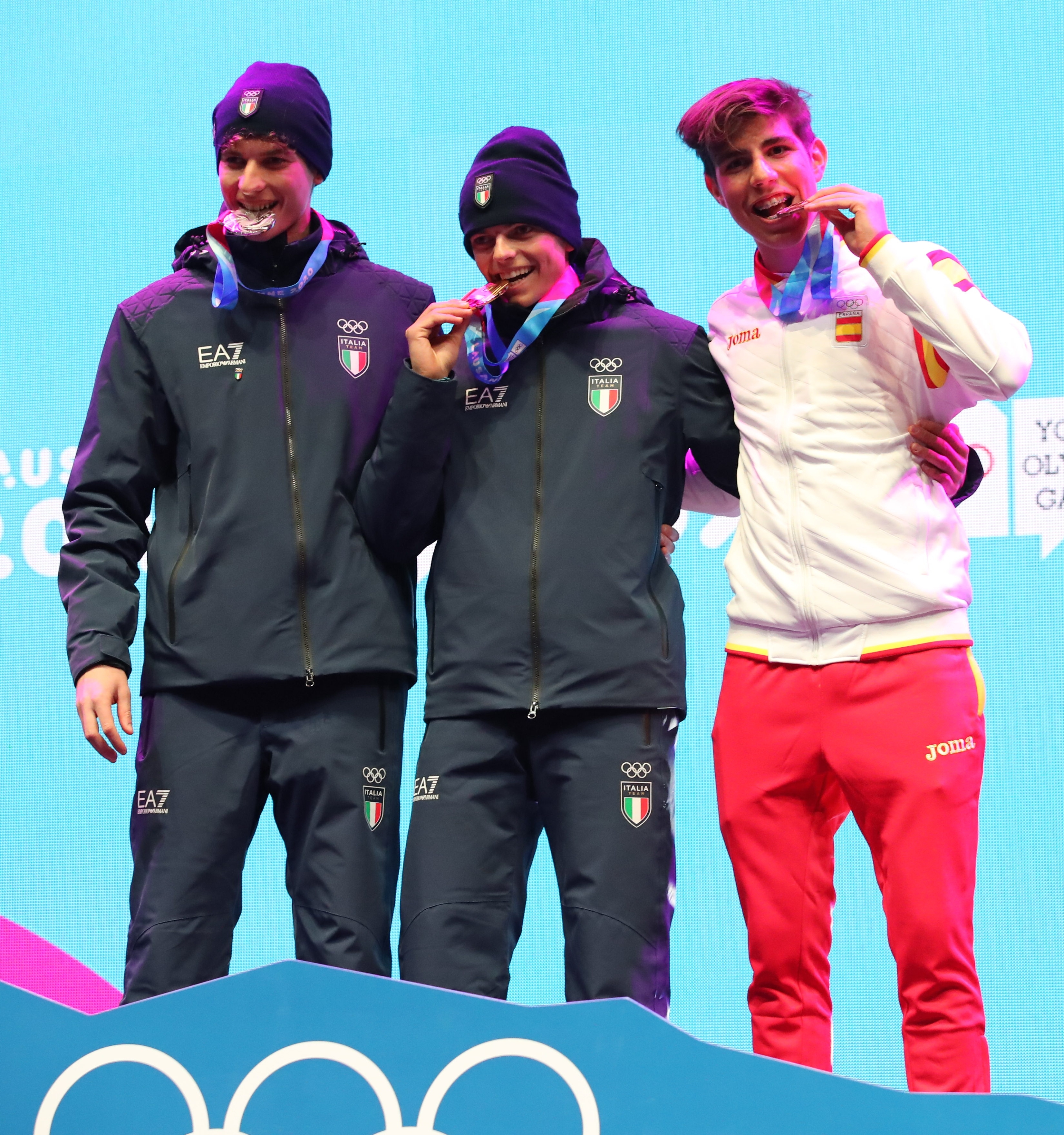 Medal ceremony of Ski Mountaineering – Men's Sprint at the 2020 Winter Youth Olympics in Lausanne on 13 January 2020.